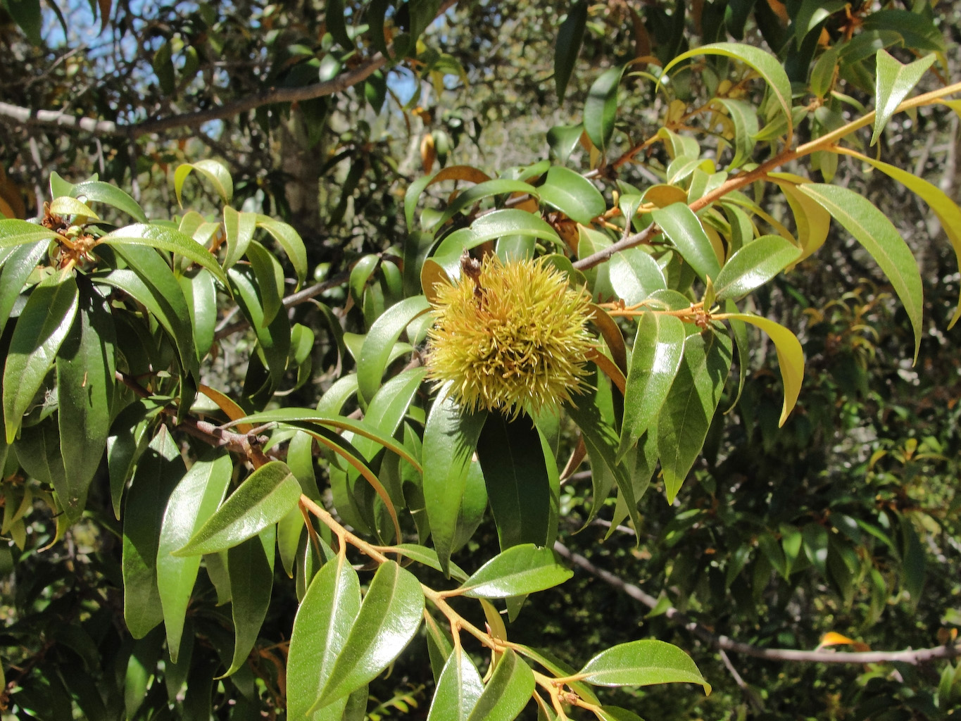 Giant Chinquapin Chrysolepis chrysophylla foliage and fruit, Howard King Trail, Big Basin State Park, California.